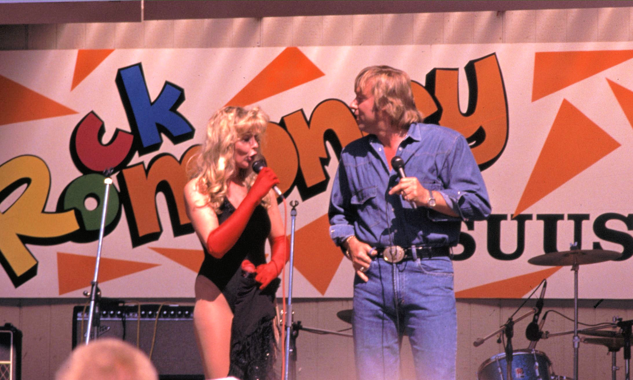 Armi and Danny performing in Heinola, Finland (cropped version)